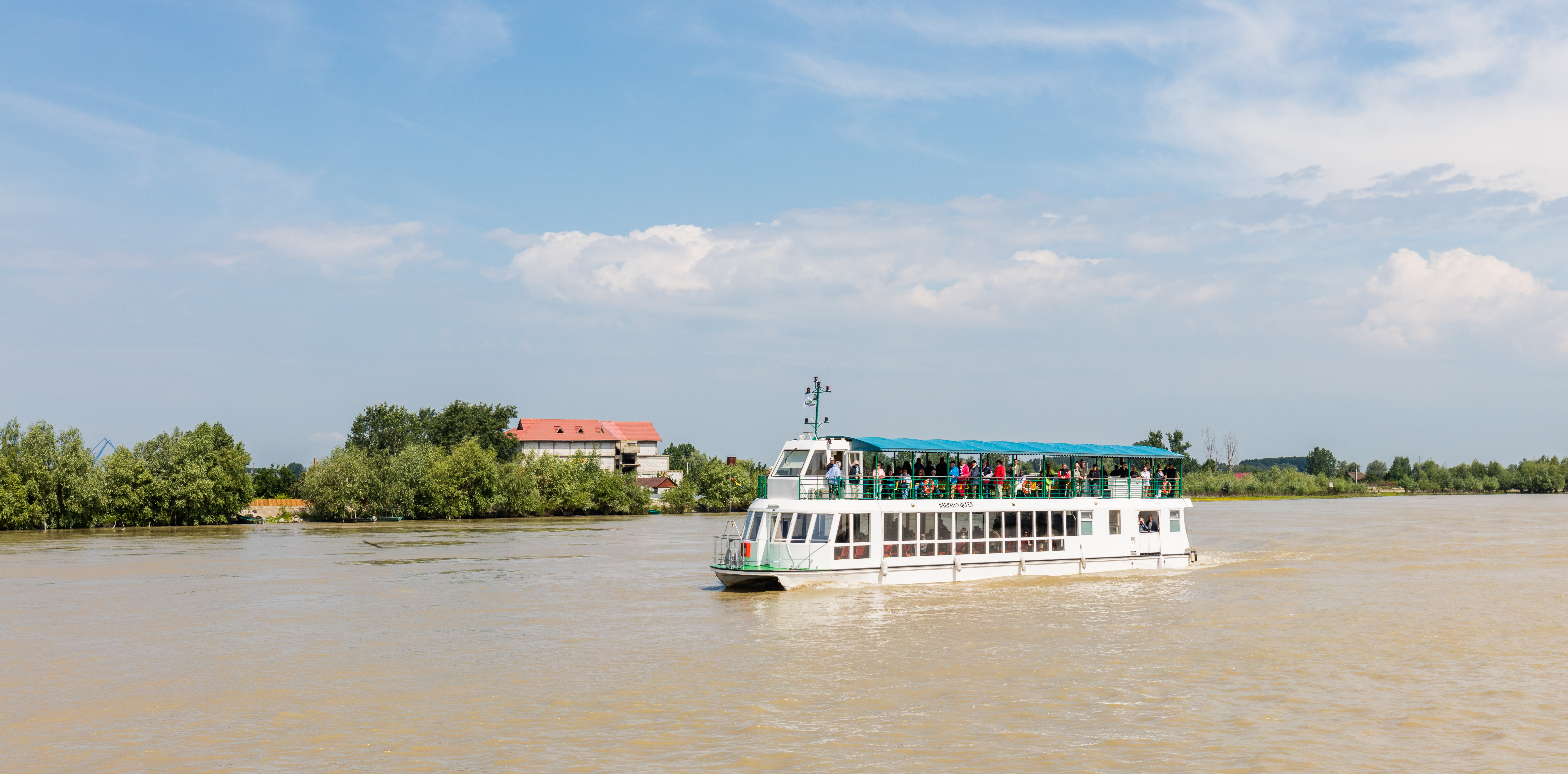 Tulcea port, Romania